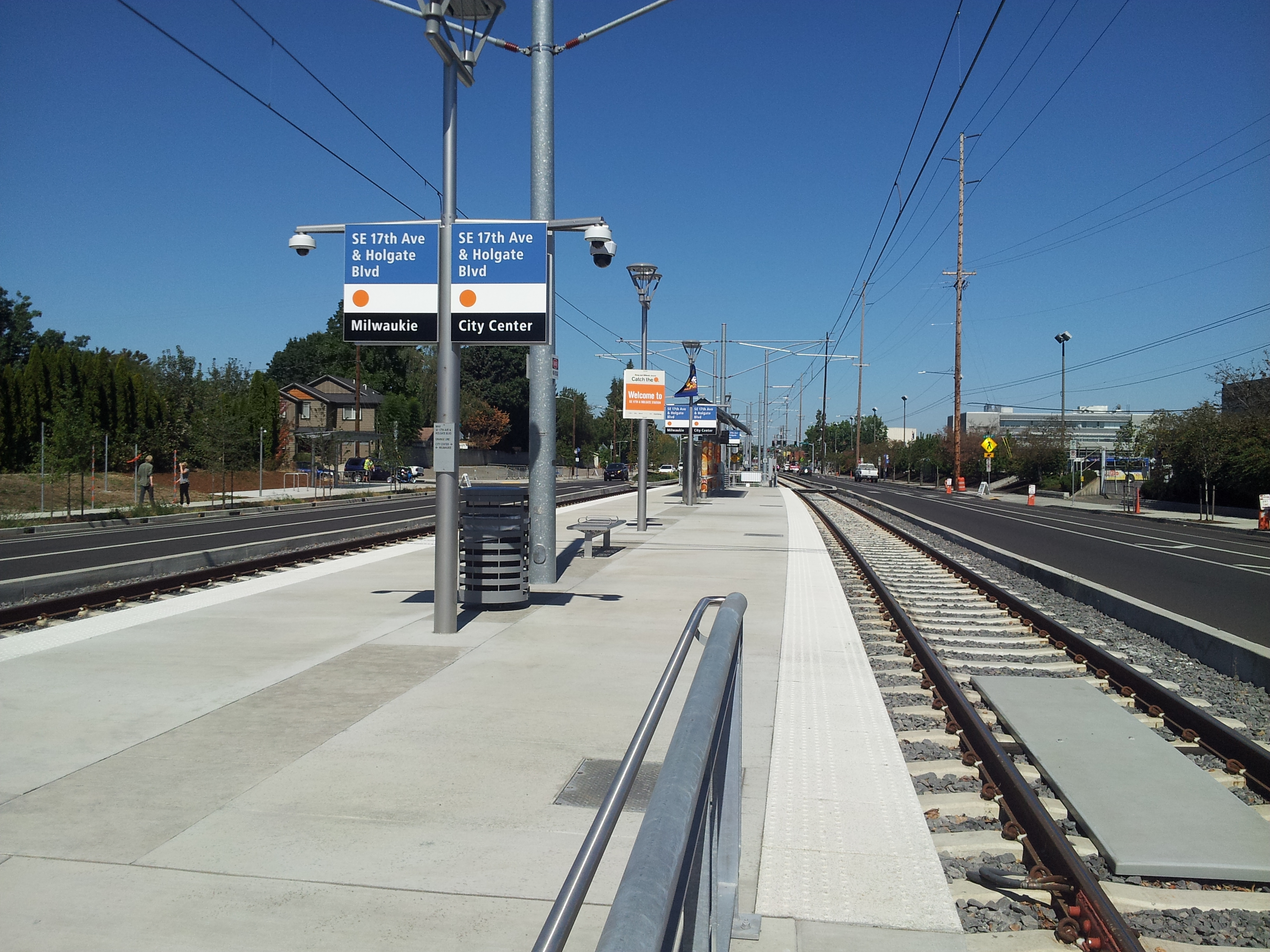 MAX Orange Line station at SE 17th and Holgate, on September 10, 2015 (two days before opening)